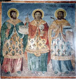 Saint George Church in Sapareva Banya Saints Cosmas, Damian and Pantaleimon